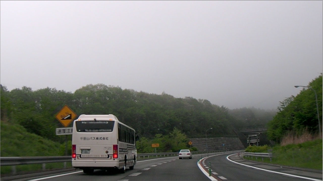 Higashi-Fuji-Goko-Road. near from Subashiri IC